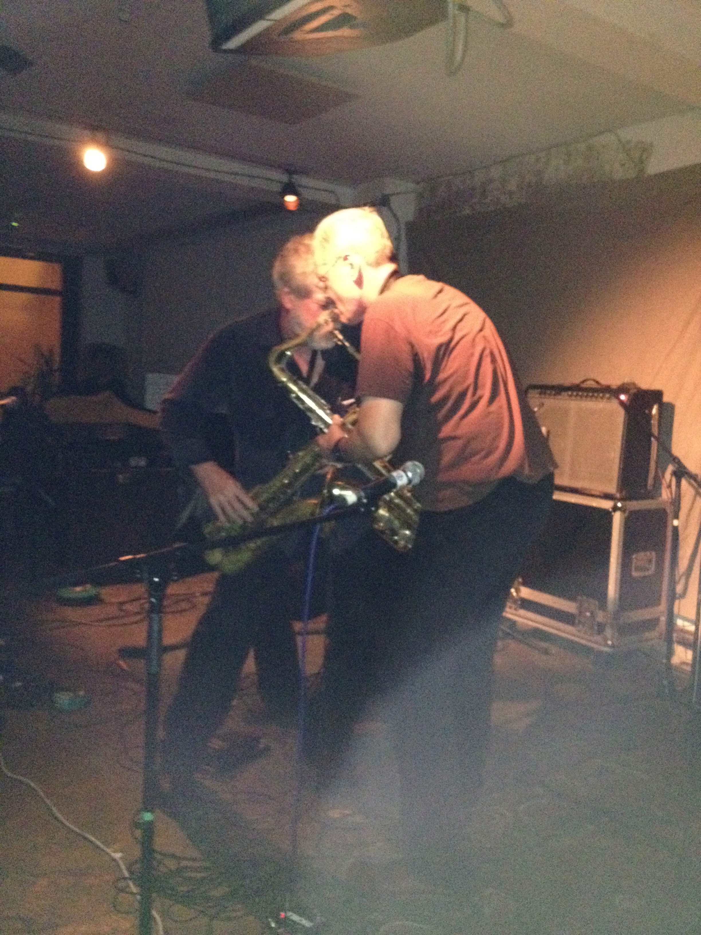 Borbetomagus performing at Cafe OTO, London, 13th October 2014